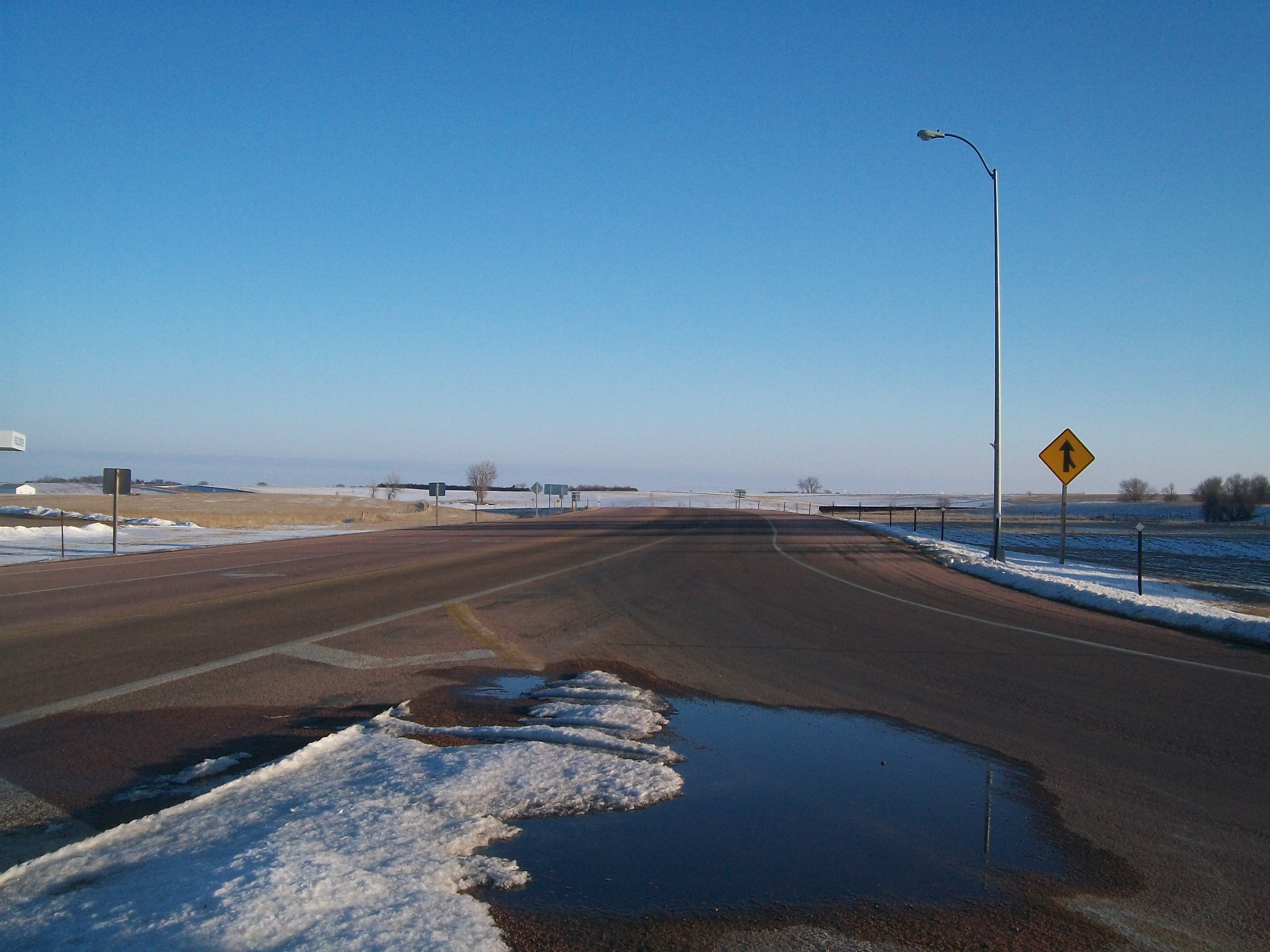 A concurrency with South Dakota Highways 19 and 44 in Parker